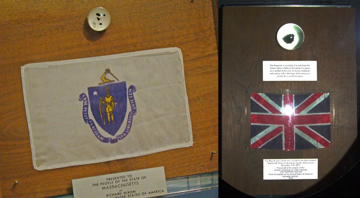 Goodwill moon rock plaques from Apollo 11 and Apollo 17